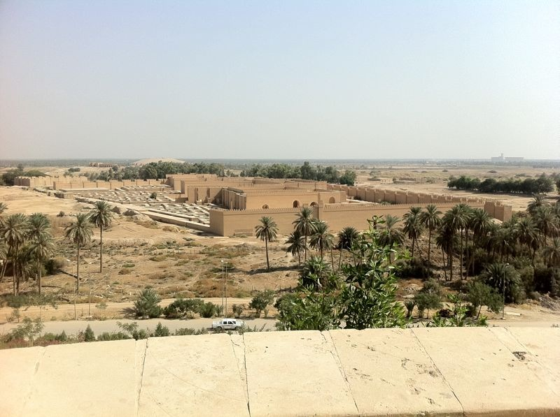 Babylon (Babil) city in Iraq in October 2011